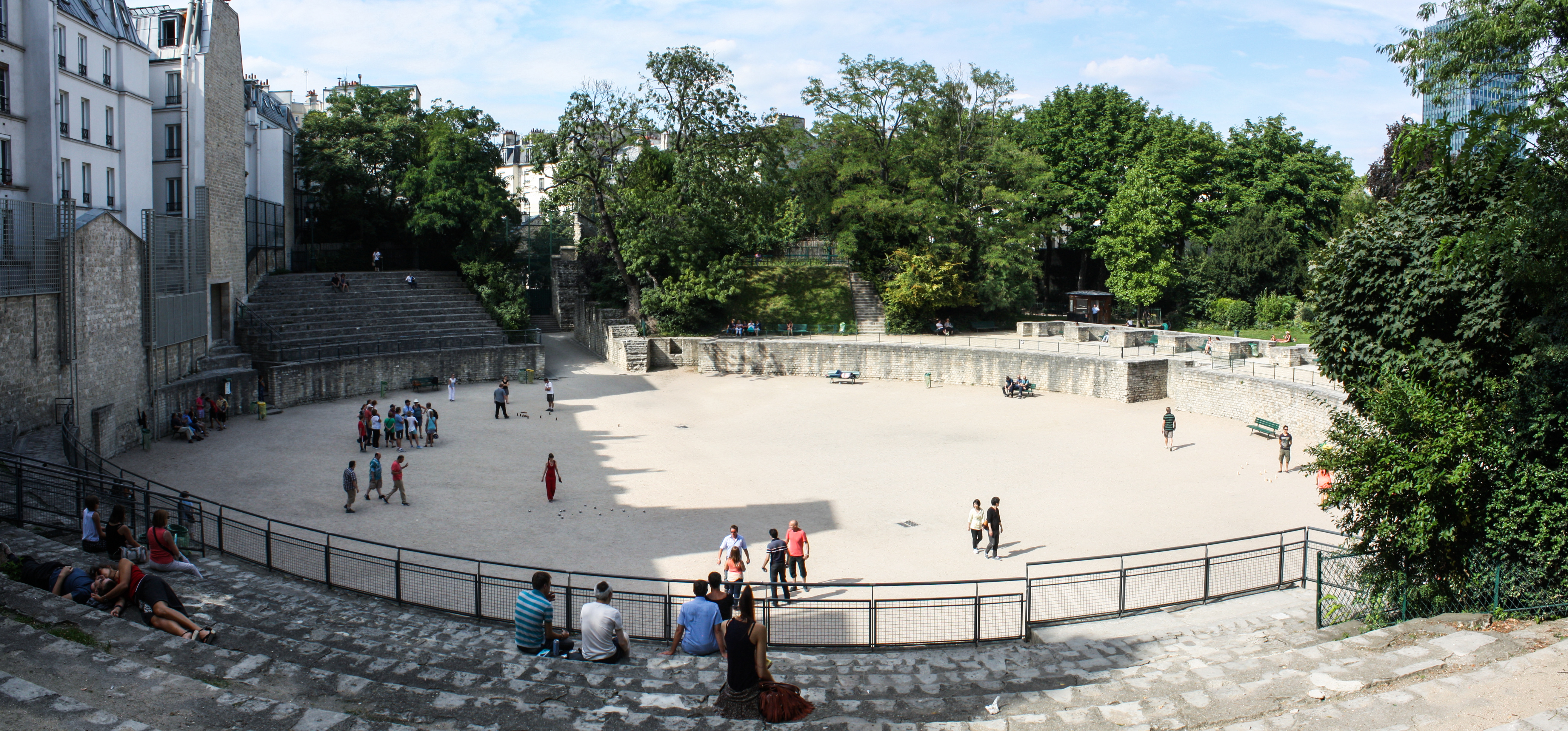 Arènes de Lutèce, the most important remains from the Gallo-Roman era in Paris.